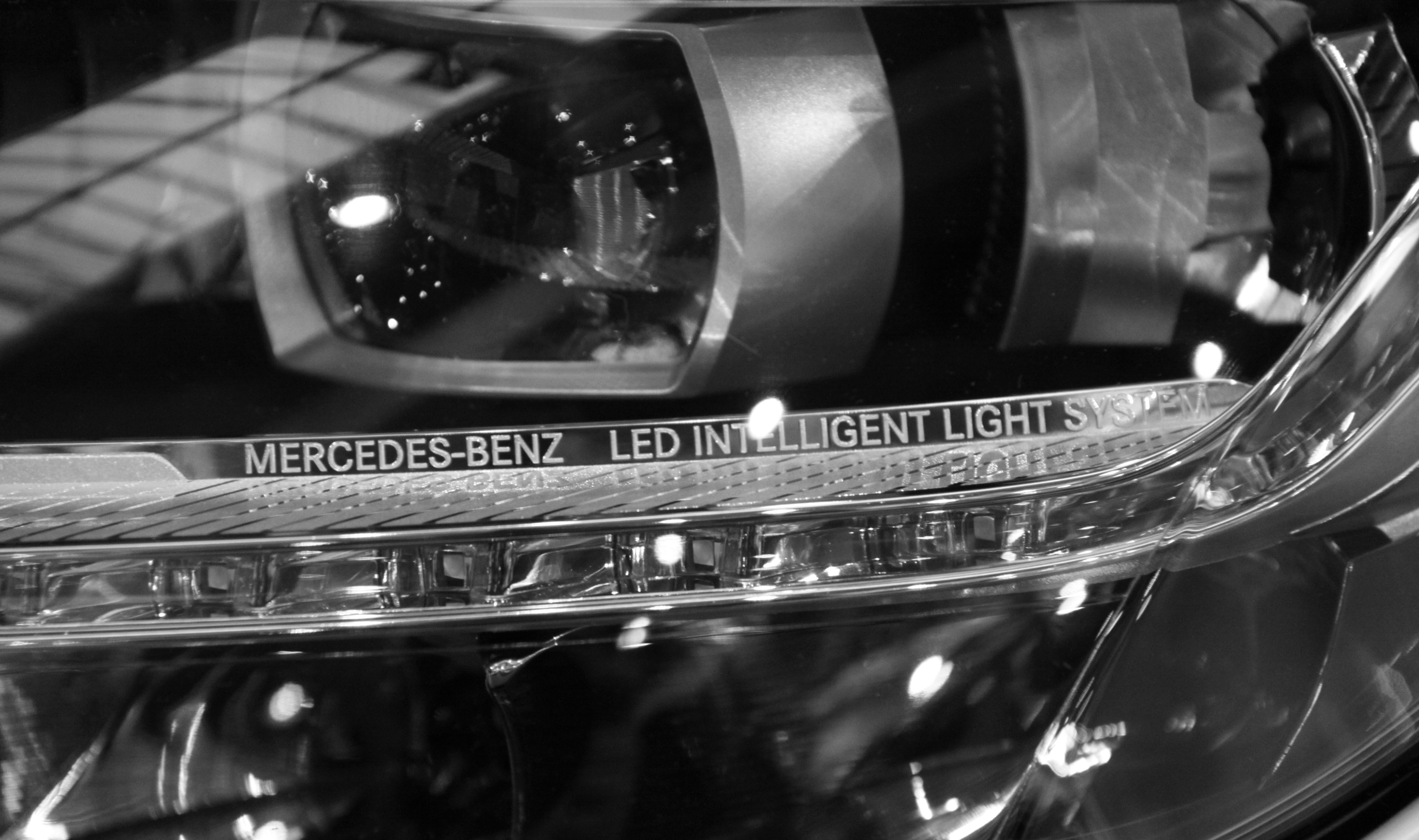 CLS headlights with engraving